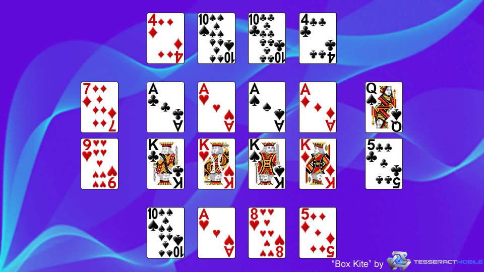 This image is a screenshot of what the solitaire game "Box Kite" should look like.